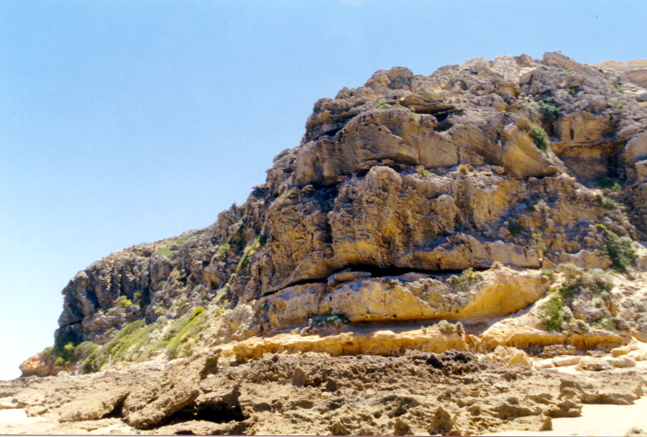 Barwon Heads, Victoria, view of the southern bluff of the southern head, looking north-west.